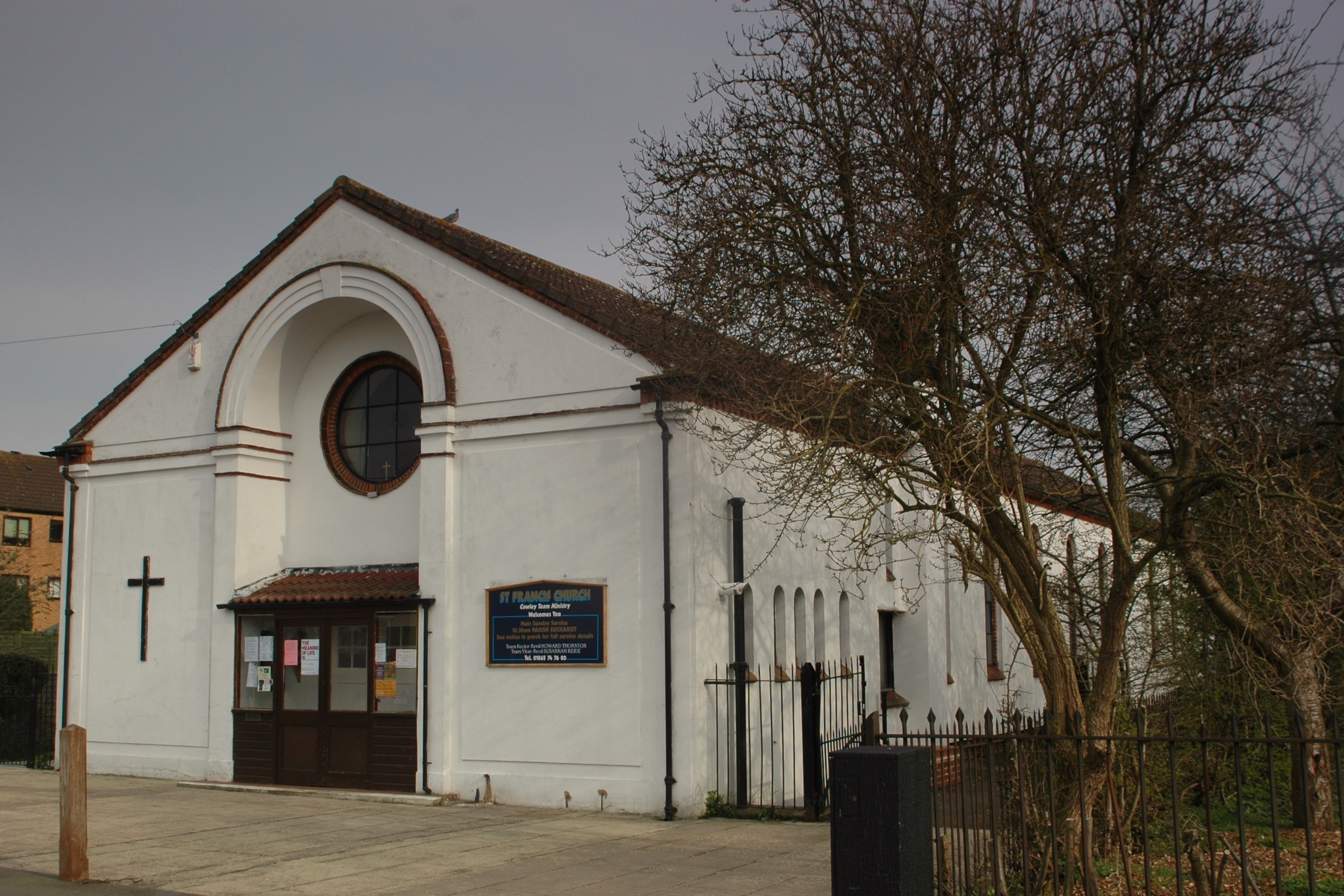 Church of England parish church of St Francis of Assisi, Hollow Way, Cowley, Oxfordshire, seen from the southwest